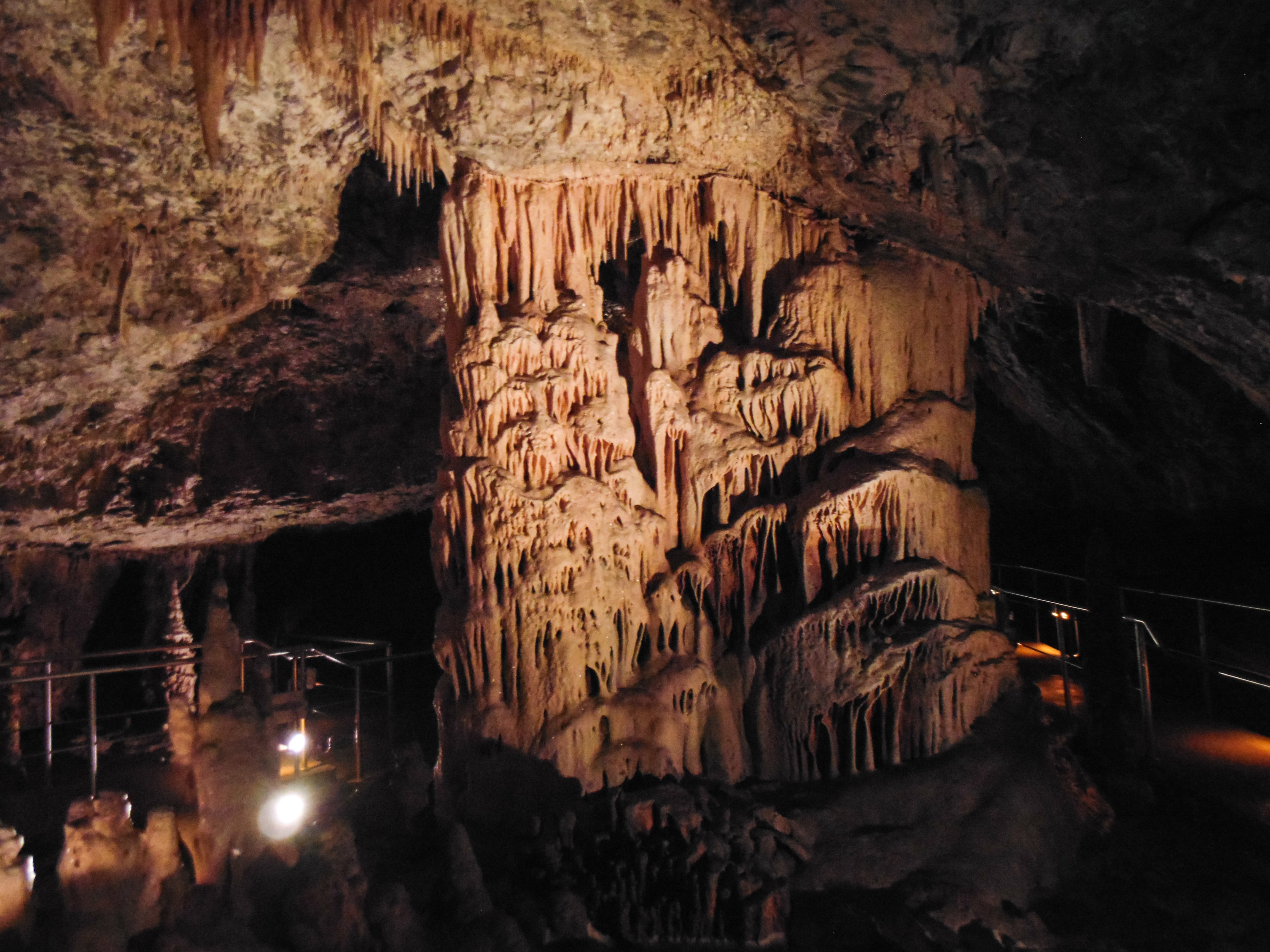 This is a photography of Natura 2000 protected area with ID GR2520001